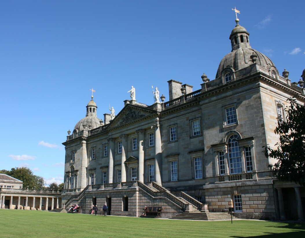 Houghton Hall with Courtyard Walls Attached to North and South